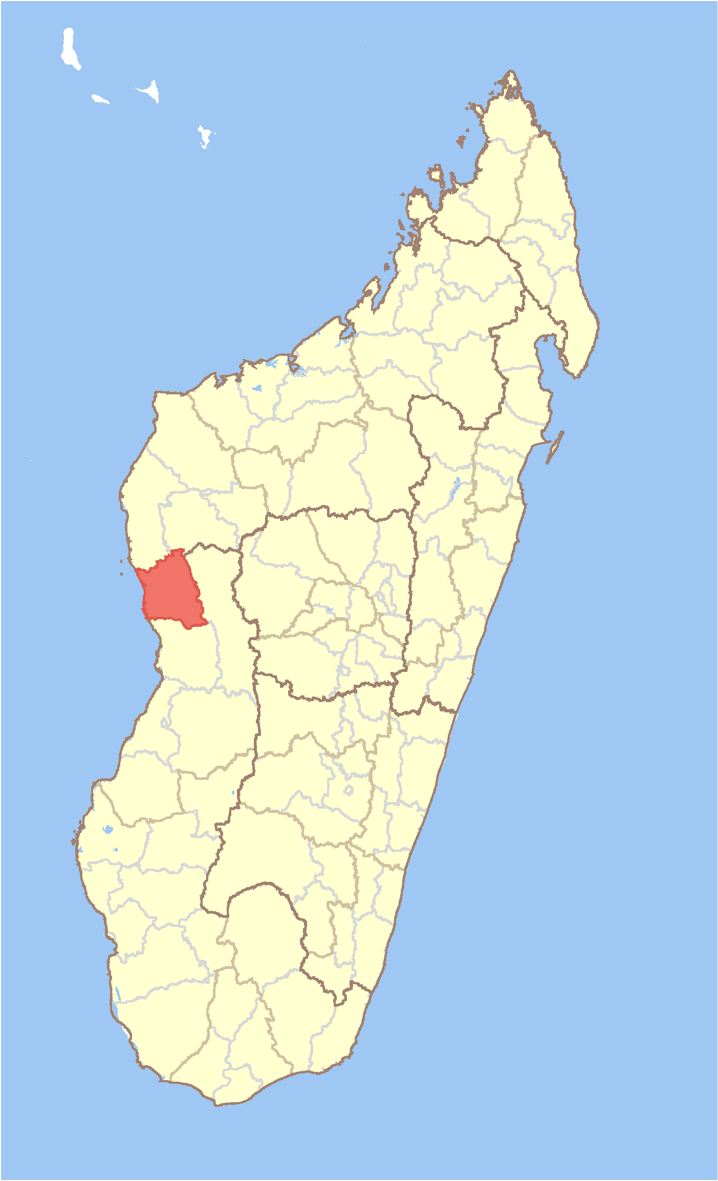 Map of Madagascar with Antsalova District highlighted